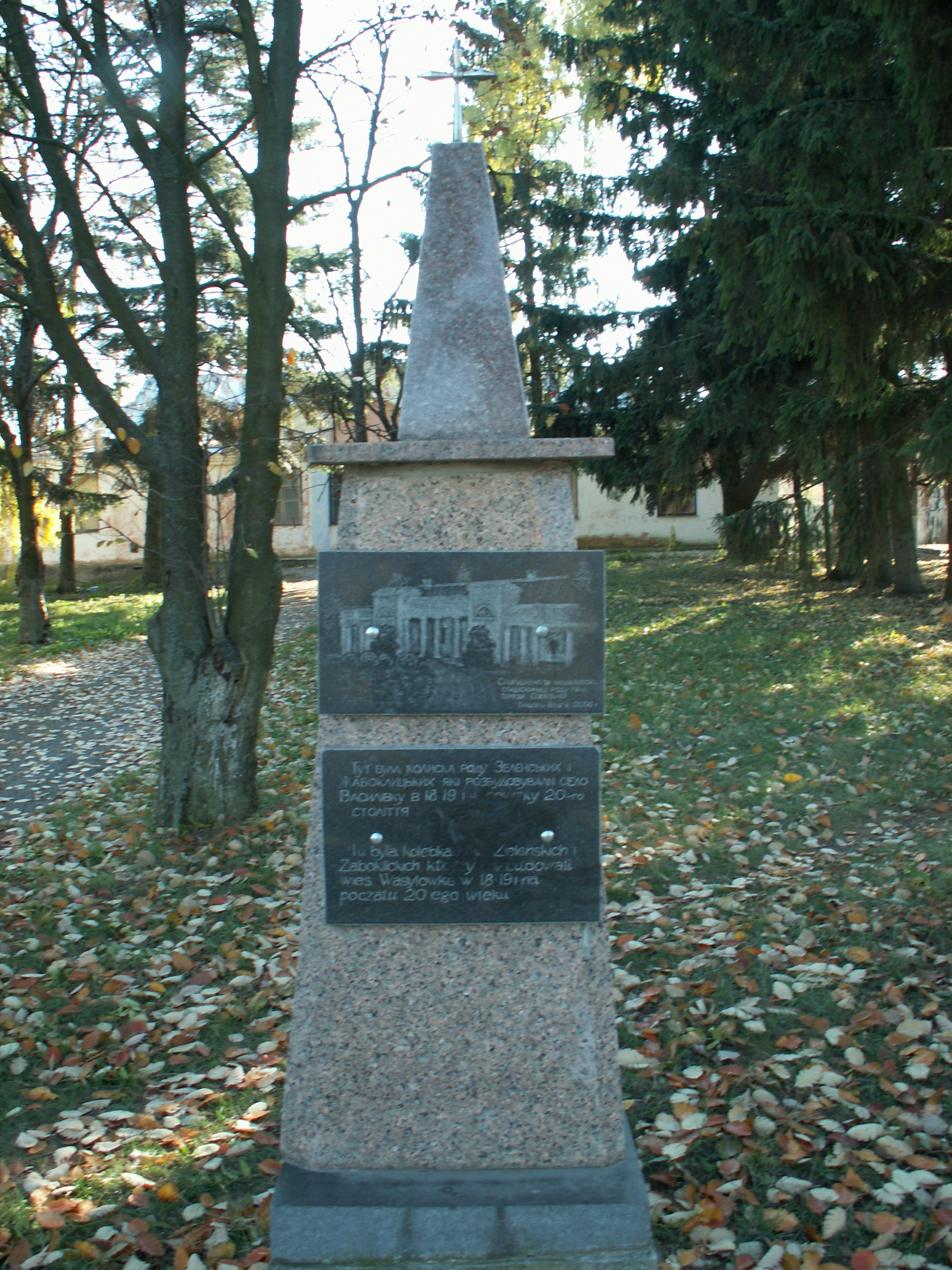 Меморіал колишній панській садибі